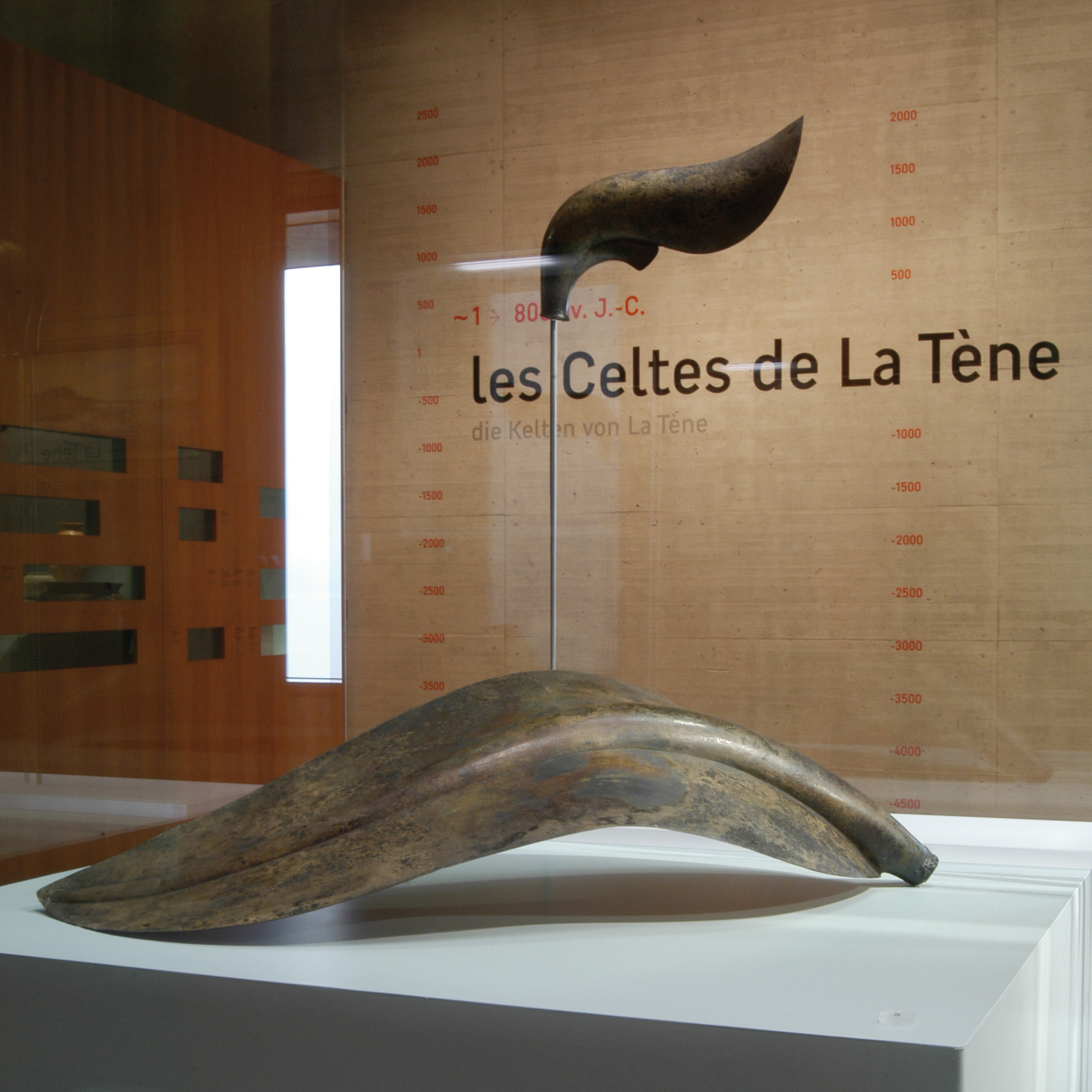 Ornament of a carnyx, found at La Tène archeological site